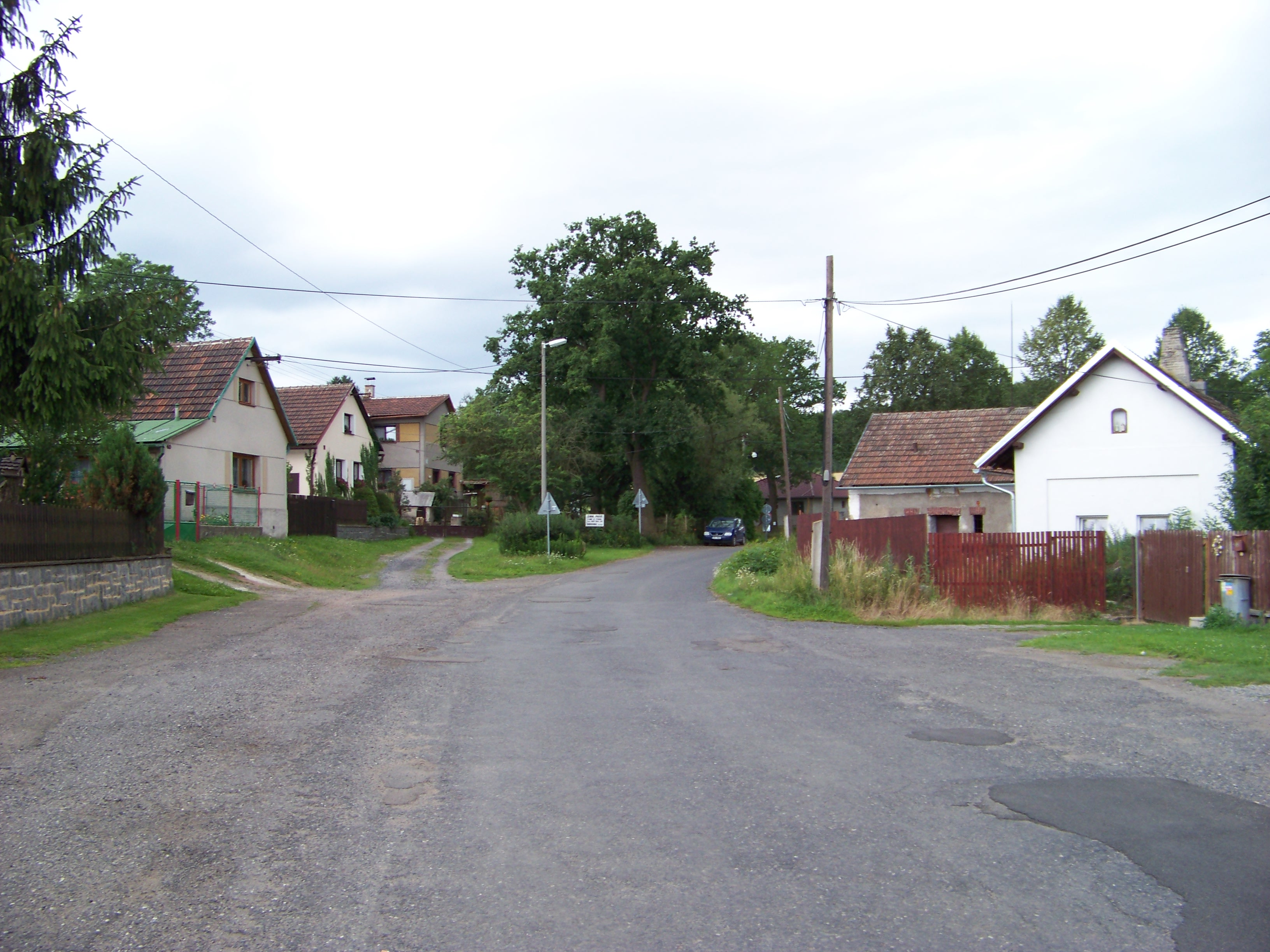 Lešetice, Příbram District, Central Bohemian Region, the Czech Republic. - OpenStreetMap(Info)